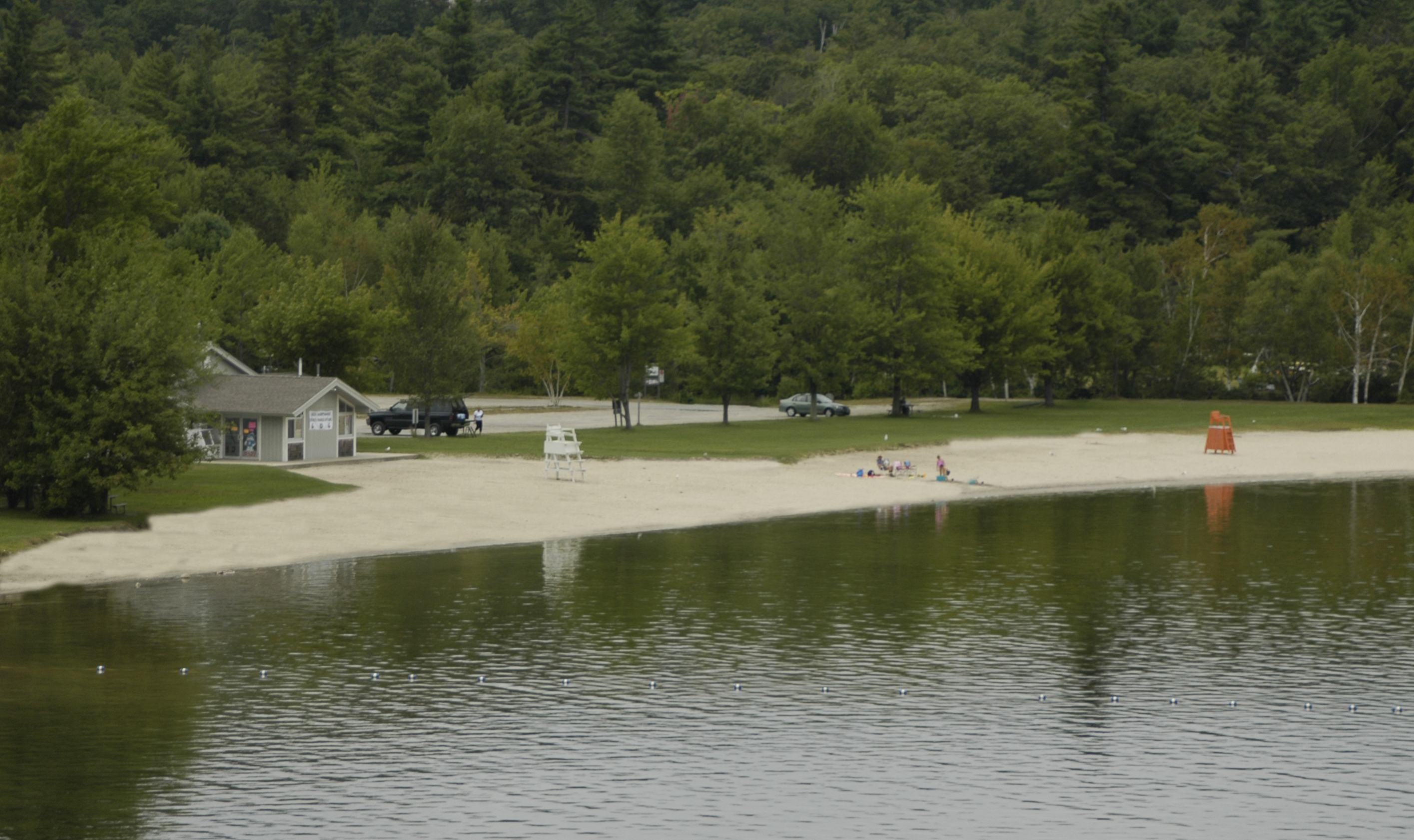 SunapeeStateBeach